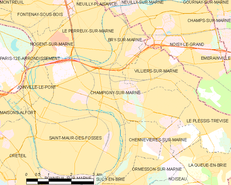 Map of French municipality Champigny-sur-Marne